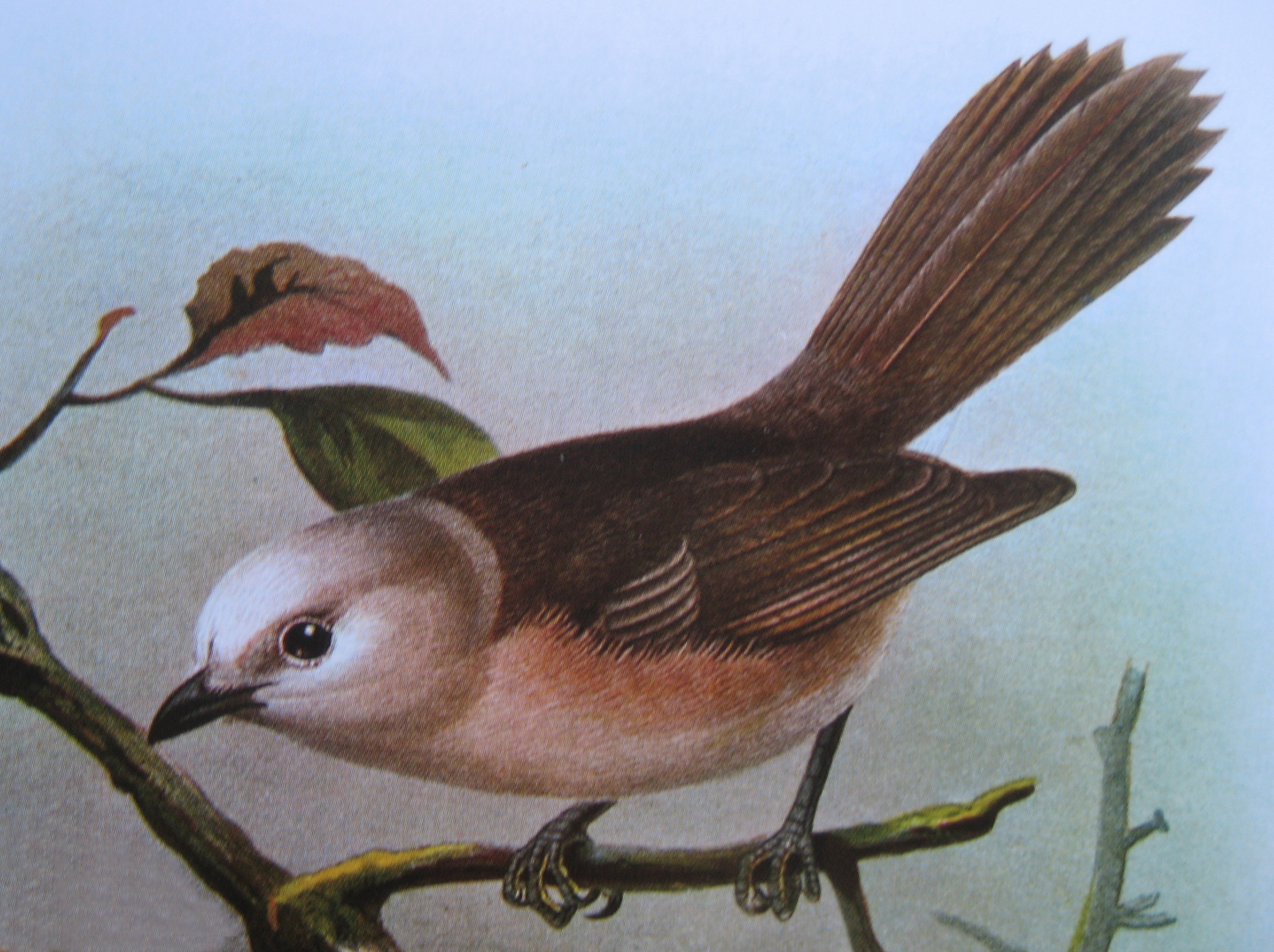 Mohoua albicilla, Pōpokotea, Whitehead.